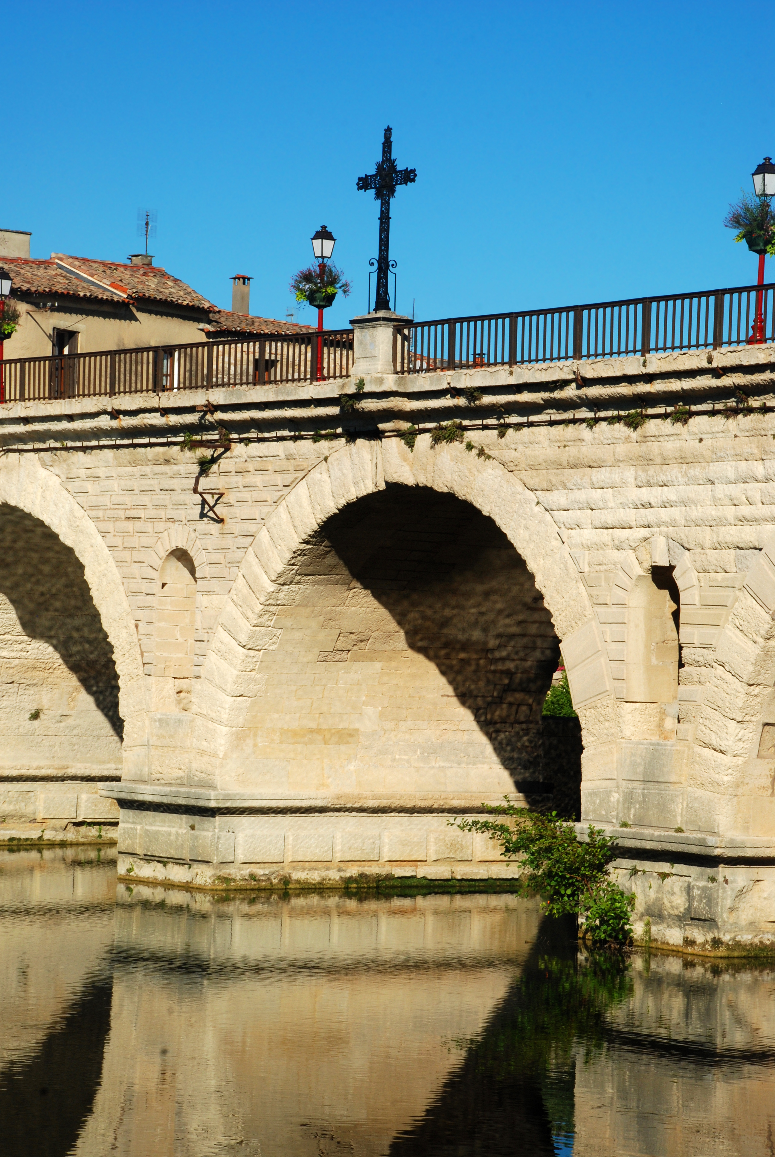 France - Gard - Sommières - roman bridge